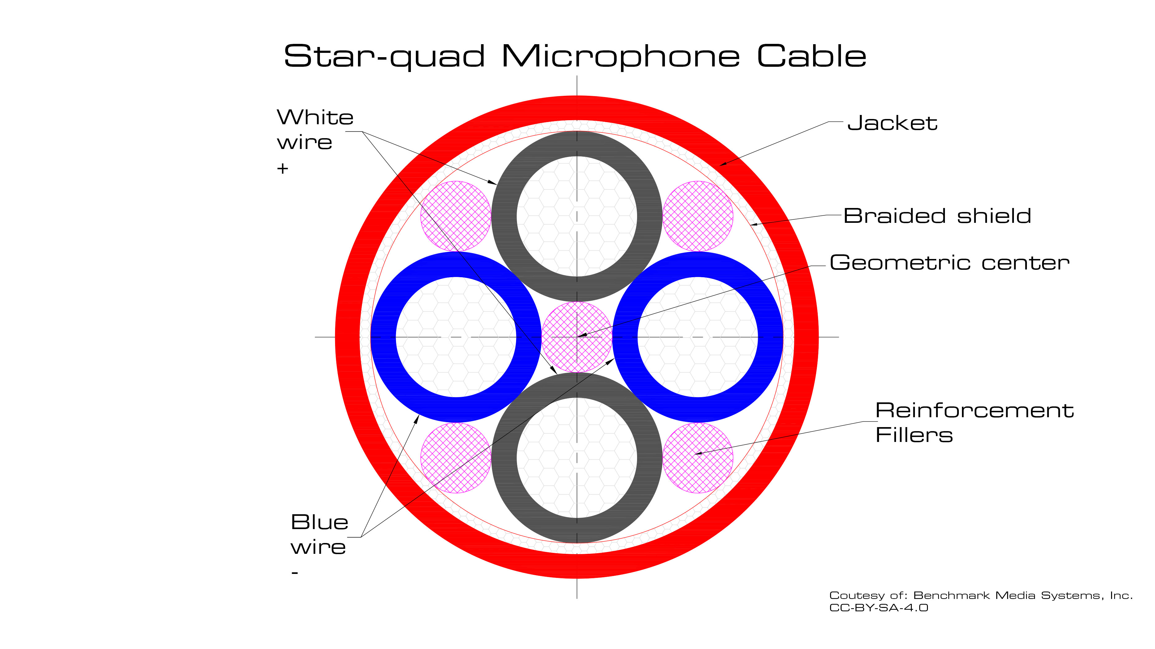 Cross section drawing of a star-quad microphone cable. Shows conductors, reinforcement strands, electrostatic shield and insulation. Wikipedia:Transmission line